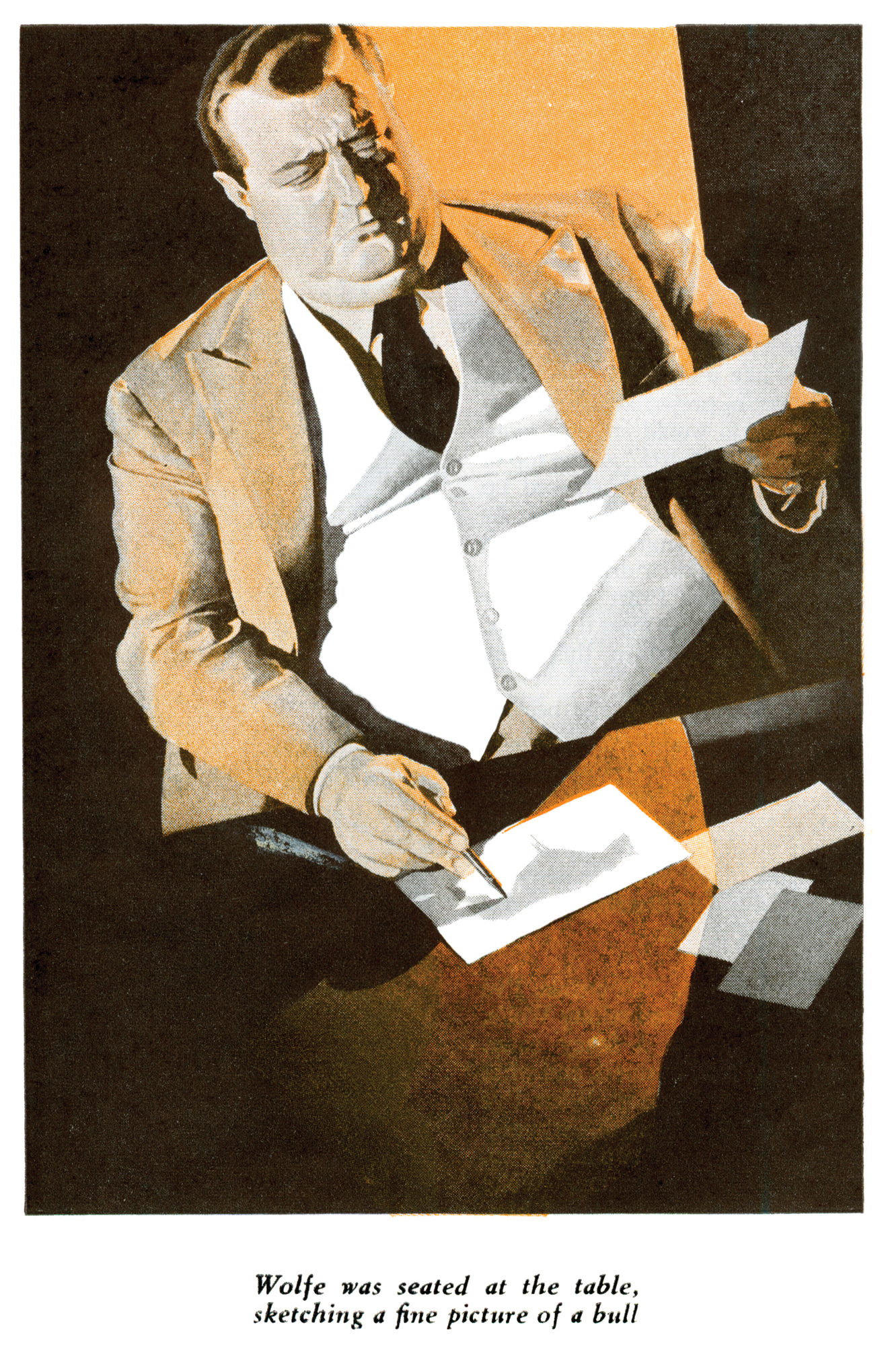 Illustration from The American Magazine abridged printing of Some Buried Caesar (1939), a Nero Wolfe novel by Rex Stout that first appeared under the title "The Red Bull"